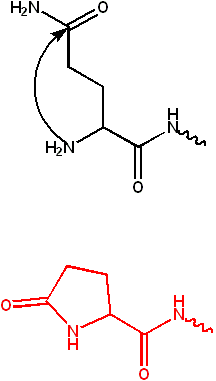 Chemical reaction forming pyroglutamate. Made with ChemDraw.